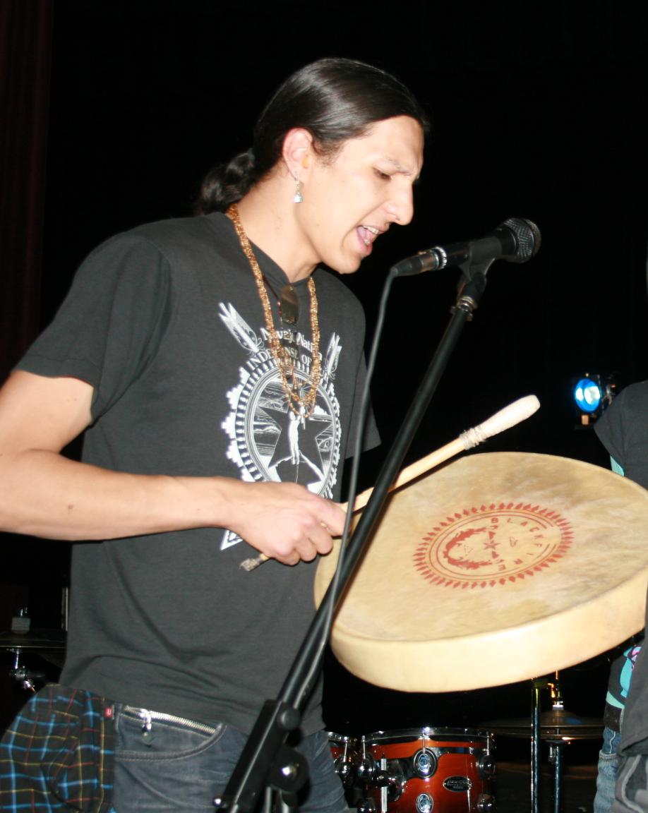 Clayson Benally of Blackfire.